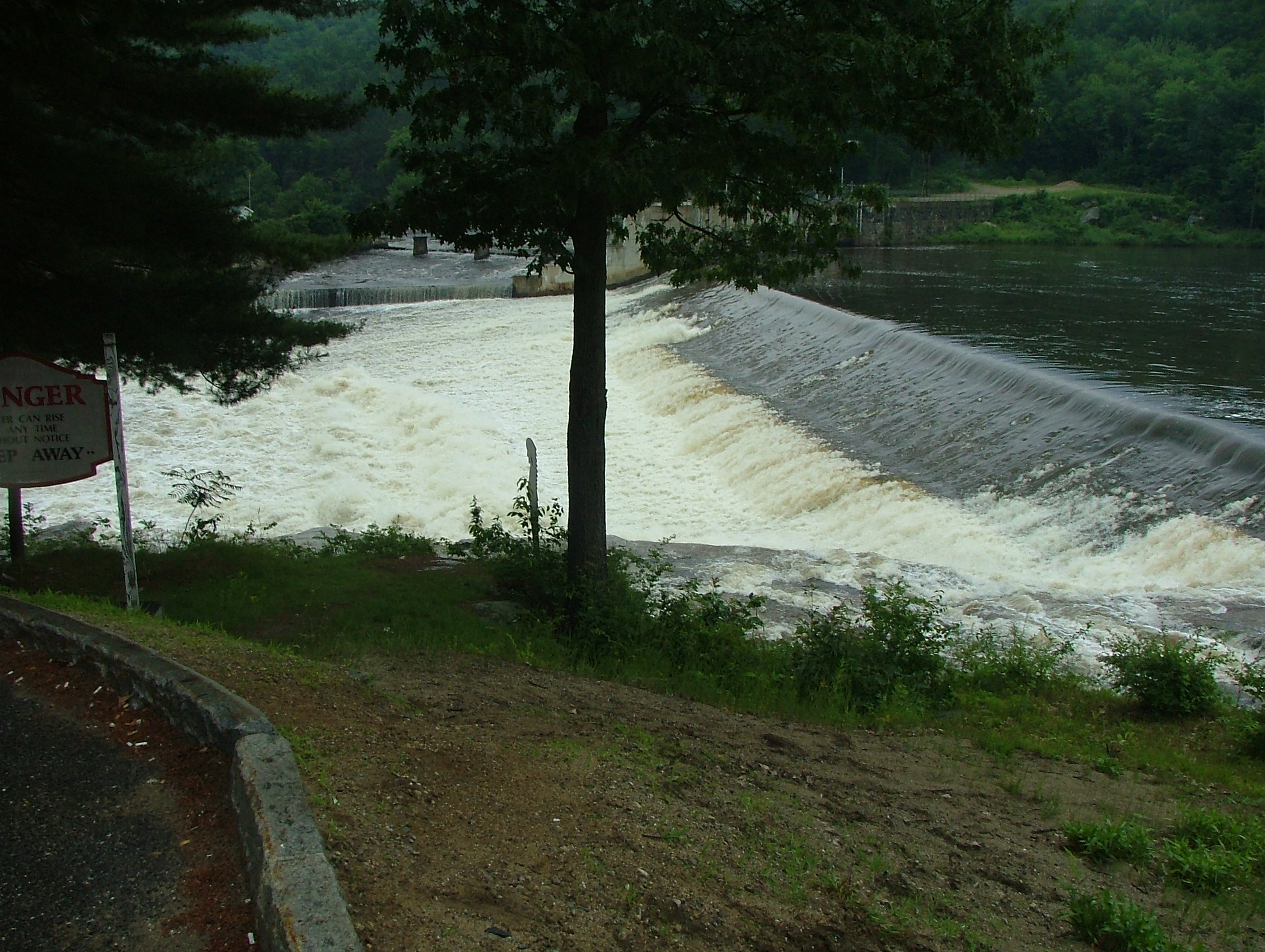 Androscoggin River in Rumford, Maine